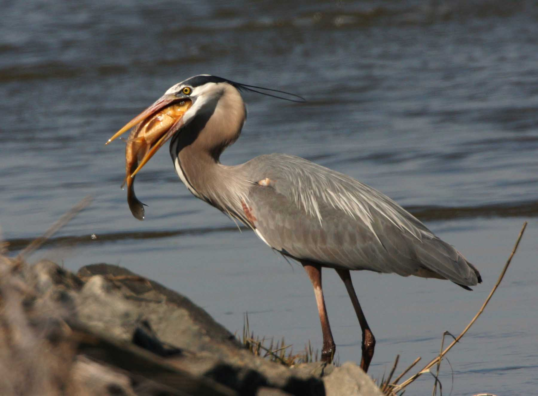 A Great Blue Heron with a fish at John Heinz National Wildlife Refuge at Tinicum, Pennsylvania, USA.